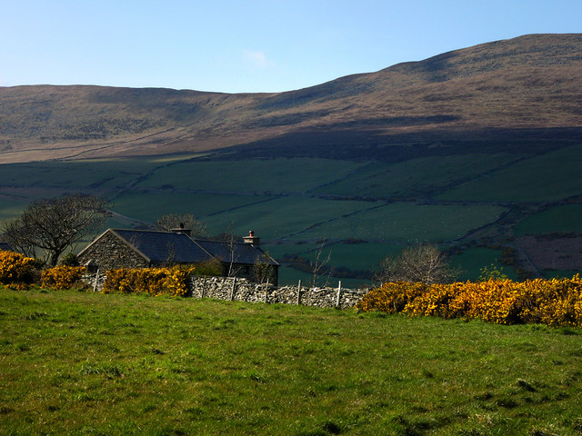 View from Castel yn Ard The building is Ards, North Barrule in the background.